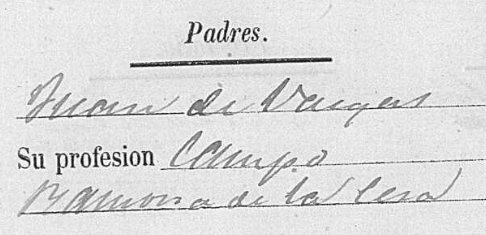 Notice of baptism for Juana Vargas de la Hera in the baptismal book of Jerez de la Frontera